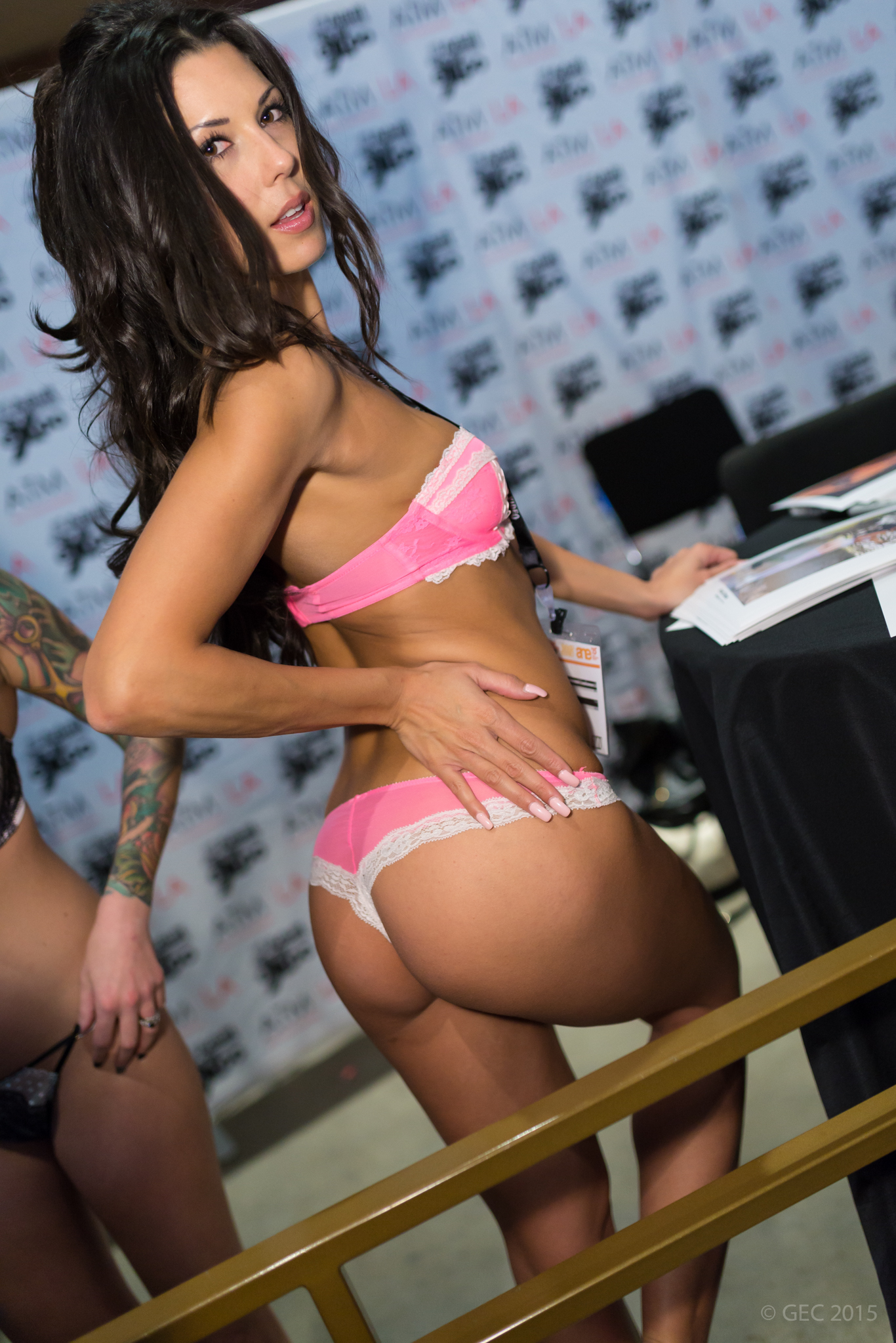 Alexa Tomas at the AVN Adult Entertainment Expo in Las Vegas on January 22, 2015